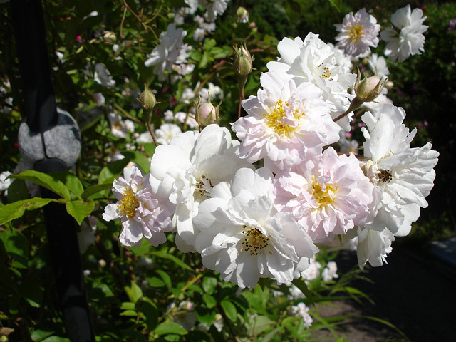 Rosa 'Sander's White Rambler'